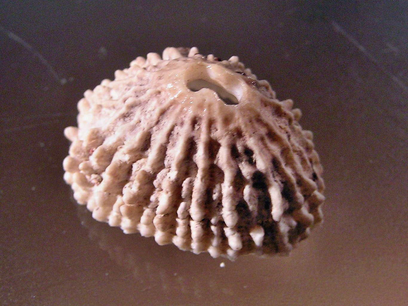 Fissurella nodosa, (Born, 1780); a keyhole limpet from the family Fissurellidae; Bahamas